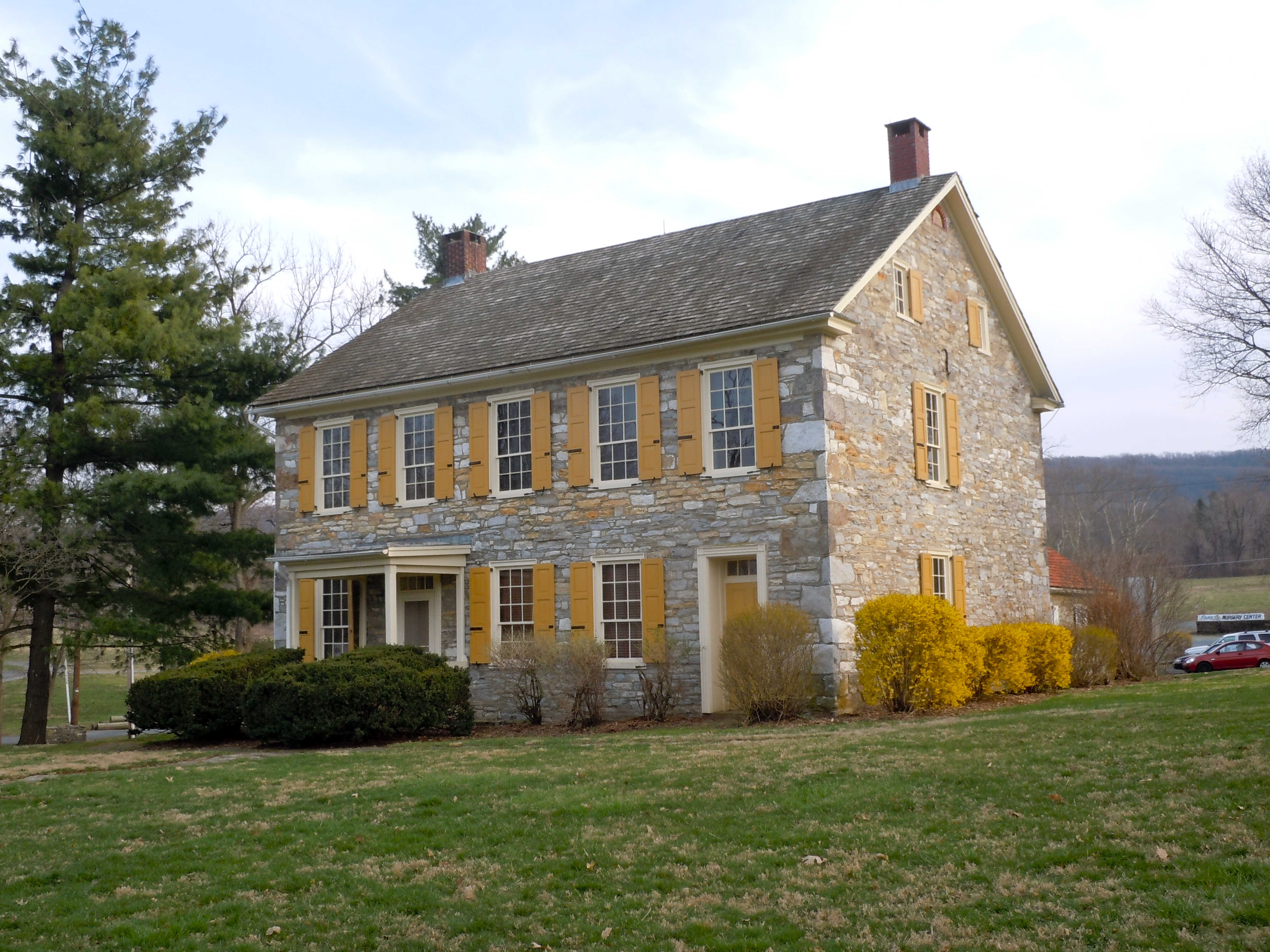 Conrad Weiser House on the NRHP since October 15, 1966. Located less than 2 miles (3.2 km) east of Womelsdorf, in Heidelberg Township, Berks County, Pennsylvania. Area also called Tulpehocken because of Indian path through the area. Weiser was a diplomat, interpreter, and "friend of the Indian" in early Pennsylvania, important in acquiring land, writing treaties. Died about 1760 near the end of the French and Indian Wars. Historical signs on property suggest that this is the place of Weiser's house but only that this particular house was built "sometime before 1835"